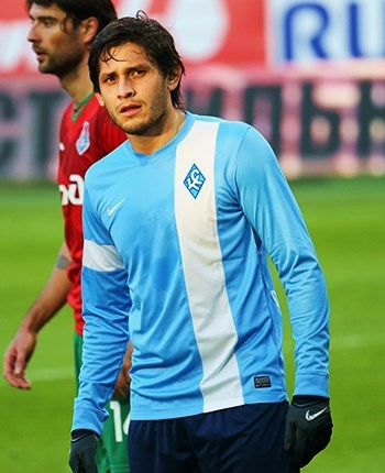 Luis Nery Caballero 2014